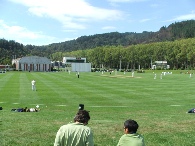 Otago play Northern Districts at the University Oval, Dunedin, New Zealand, in February 2007. Edmund Anscombe's former Exhibition Art Gallery is centre left, New Zealand Historic Places Trust Register number 2149. Photograph by James Dignan (User:Grutness).